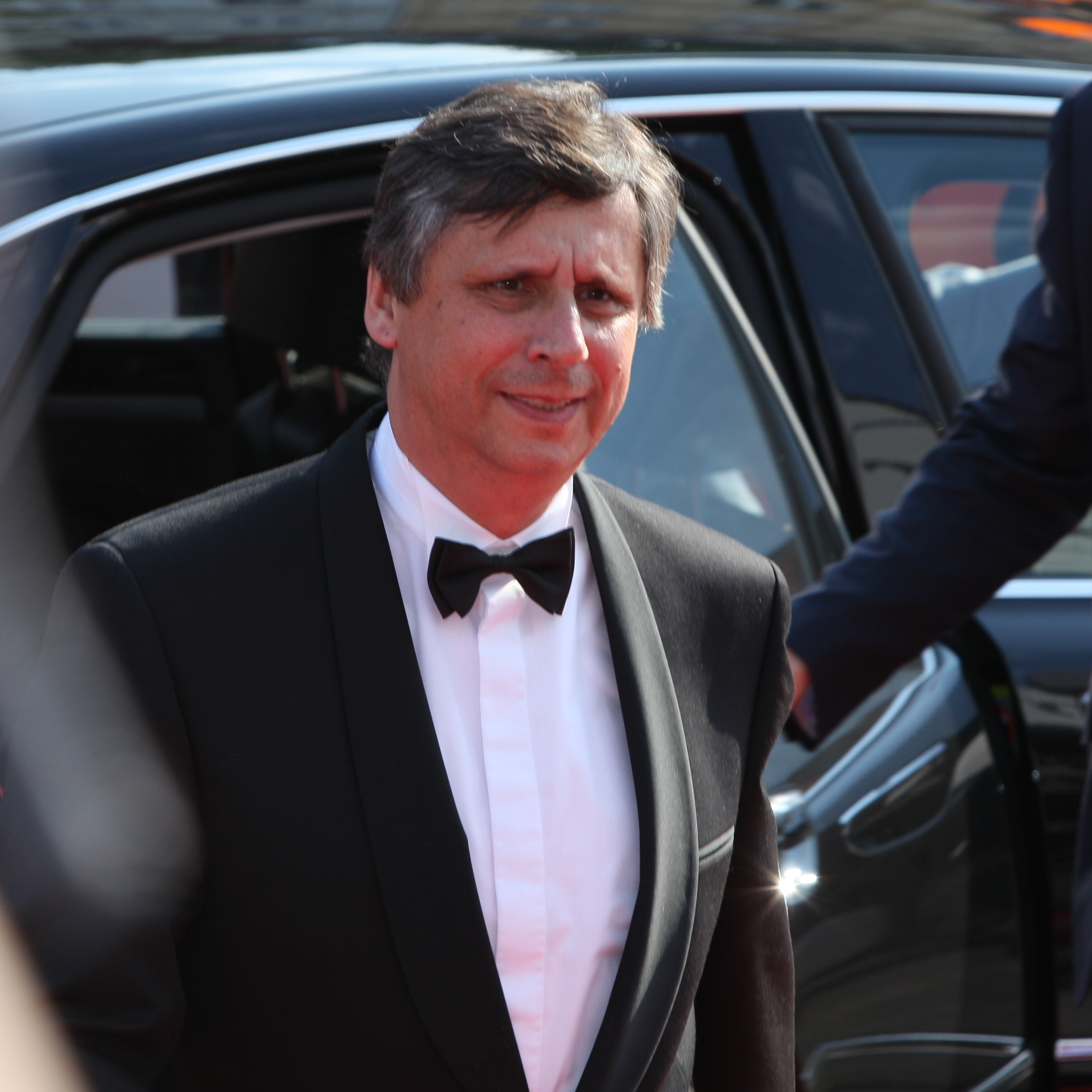 Czech prime minister Jan Fischer at 44th Karlovy Vary International Film Festival